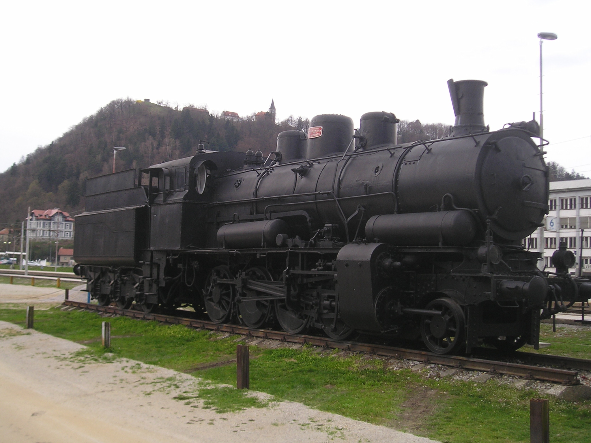 Normal gauge steam locomotive JŽ 25-002 (formerly SHS 270.202) at the train station in Celje, Slovenia. No information sheet available (yet), technical data from here: Length: 17,350 mm, height: 4,650 mm, weight: 78.2 t, diameter of driven wheels: 1,300 mm, max. speed: 60 km/h, diameter of steam cylinders: 570 mm, lattice surface: 3.87m², evaporating surface: 178.27 m², valve gear: Heusinger, steam pressure of the boiler: 13 bar, axle load: 13.5 t, characteristics: 1Dh2 The locomotive was produced in 1922 by Actien - Gesselschaft der Lokomotiv-Fabrik vorm. G. Sigl in Wiener Neustadt, serial nr.: 5721. Locomotives of this class were mostly used on the section between Zidani Most and Maribor. Initially, this locomotive was also in use on this section, later it was also used onsections Celje - Preloge, Celje - Velenje and Celje - Imeno - Kumrovec. It pulled mostly freight trains. It was withdrawn in 1978. In 1989 it was exhibited in Celje and renovated in 1995. Pospichal Lokstatistik. About the class 25. More info (in Slovenian only). Brochure of the Railways and Rail Exhibits Fan Club Celje: English and German. More photos: 1.